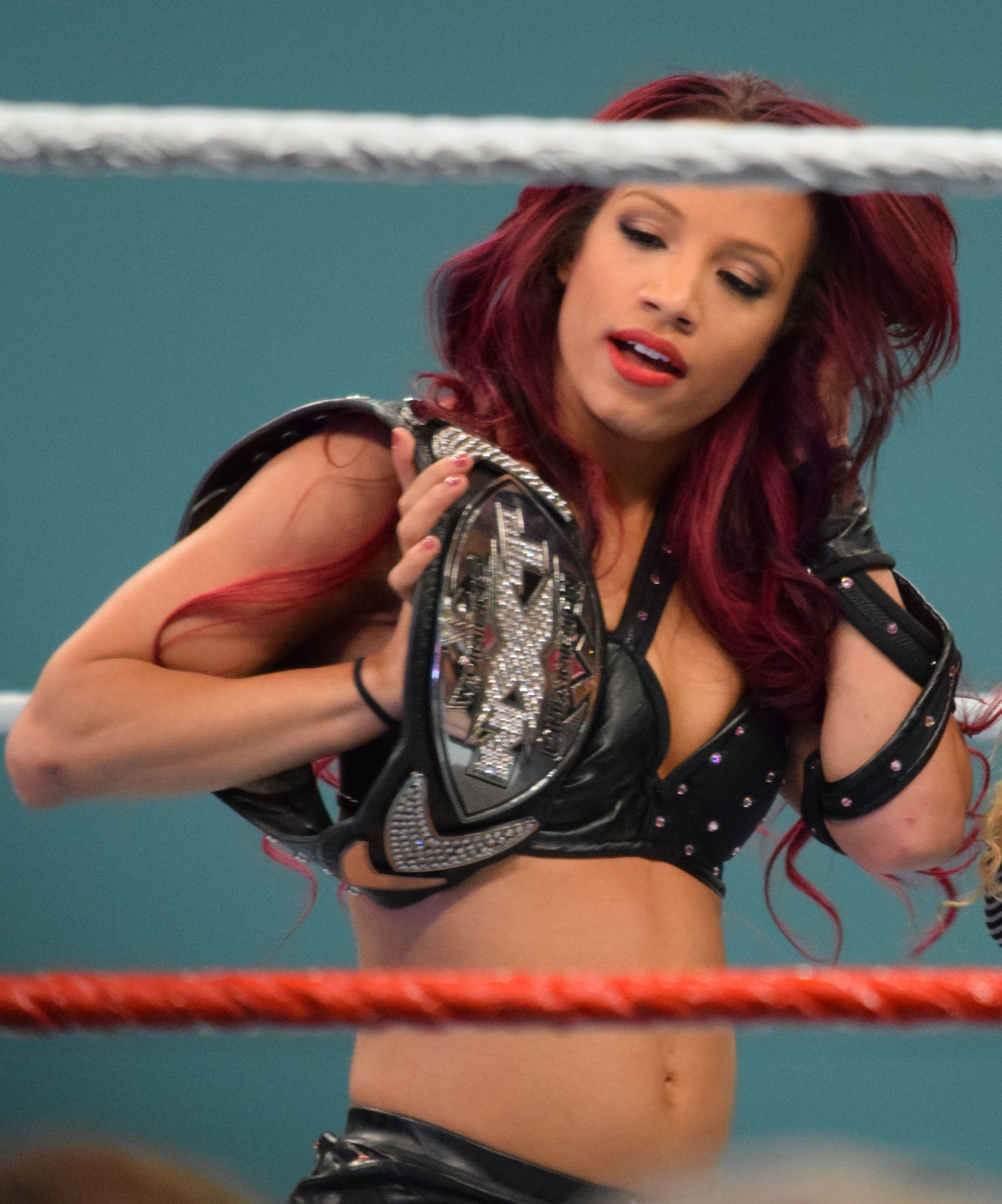 Sasha Banks as the NXT Women's Champion in March 2015, at the Arnold Classic 2015. Cropped from original image.